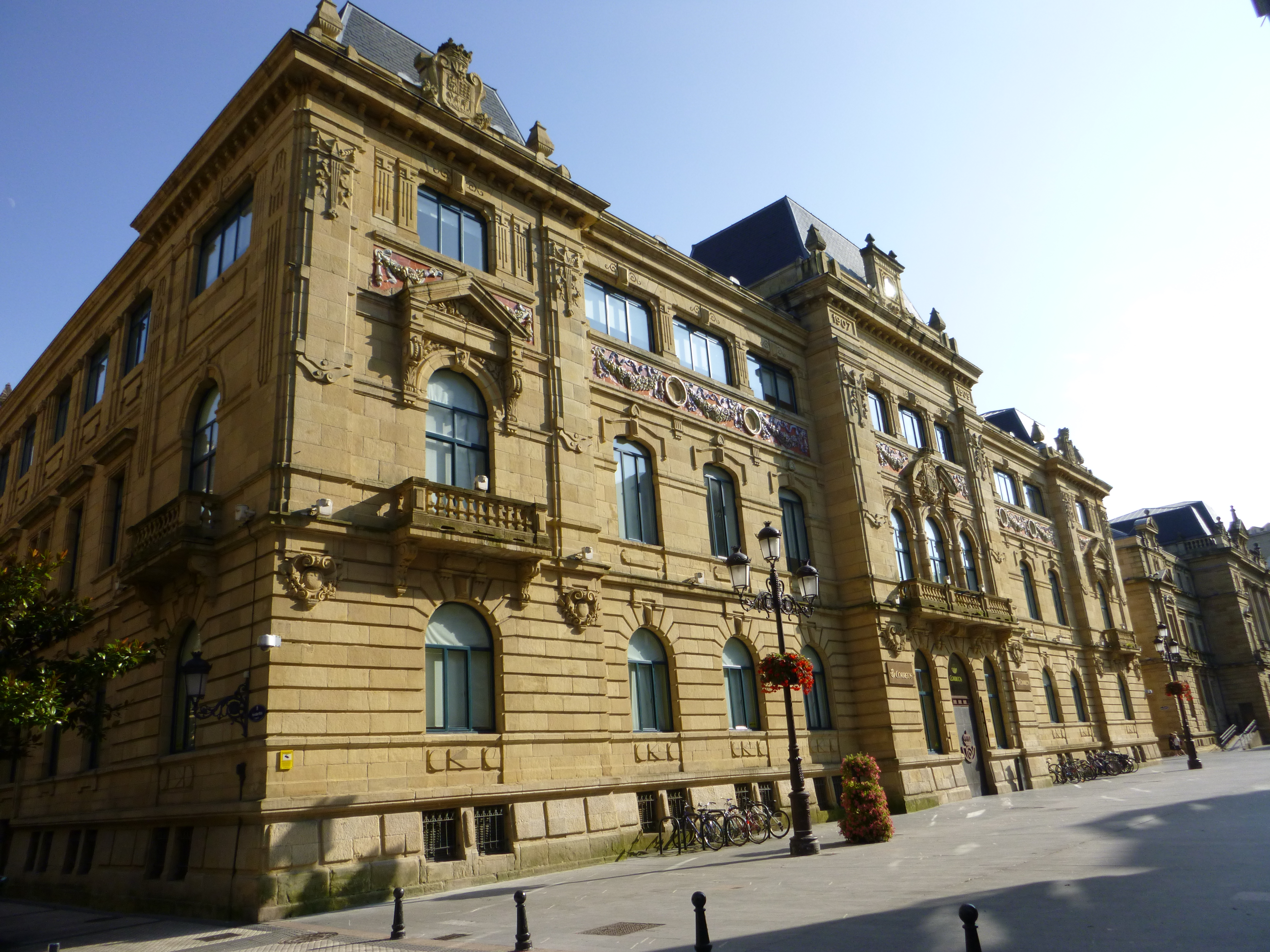 Main post office in Urdaneta street